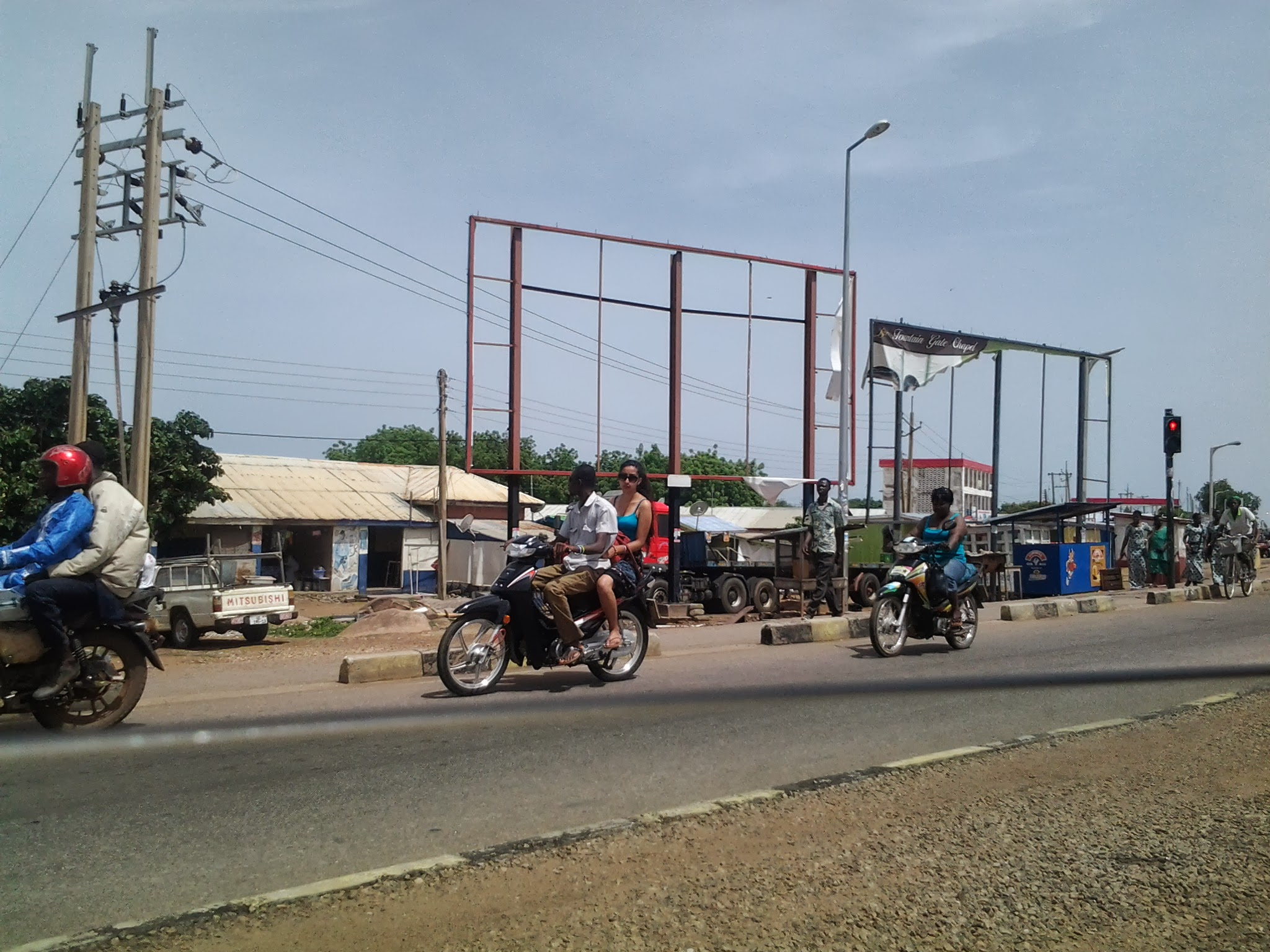 This is a snapshot of one of the principal streets of Bolgatanga. Motor bikes are fast becoming a popular commercial means of transport.